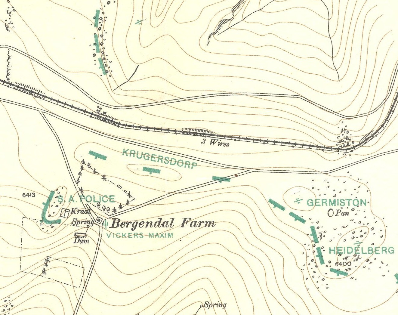 Position of Boers during the battle of Bergendal on 27 August 1900